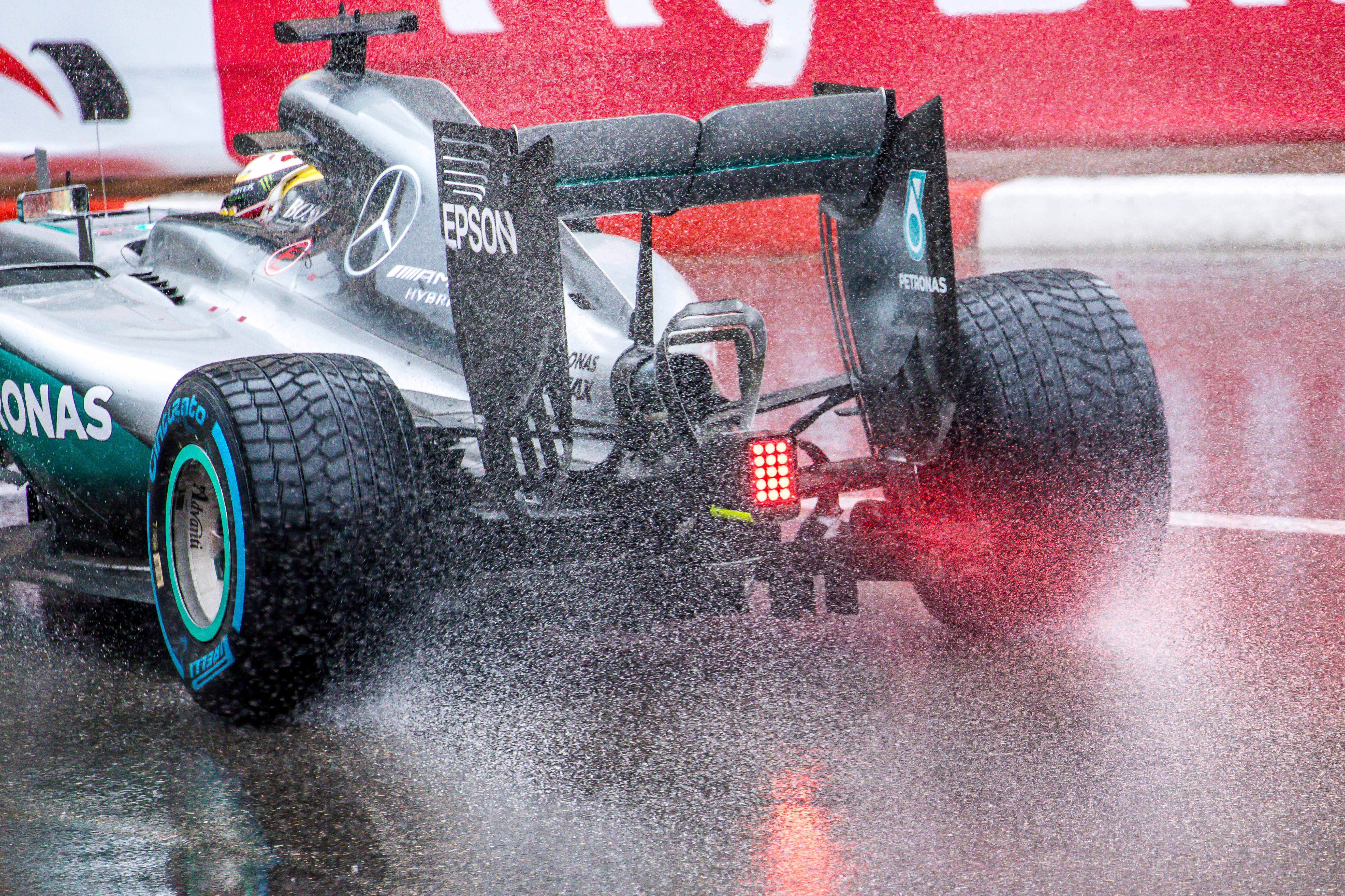 Lewis Hamilton at the 2016 Monaco Grand Prix